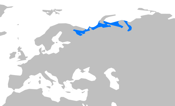 Eleginus nawaga range map